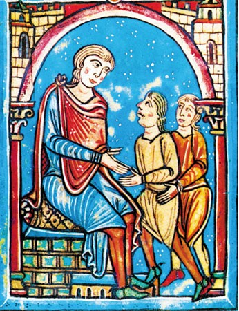 Liber Feudorum Ceritaniae - Miniature alluding to an agreement between lord and vassal. Count Wilfred of Cerdanya, sitting on his throne, receives the tribute of Isern and Dalmau of Castellfollit for the castle of Sant Esteve de Castellfollit. The size difference between lord and vassals is striking, as is the castle scenario where the action unfolds.